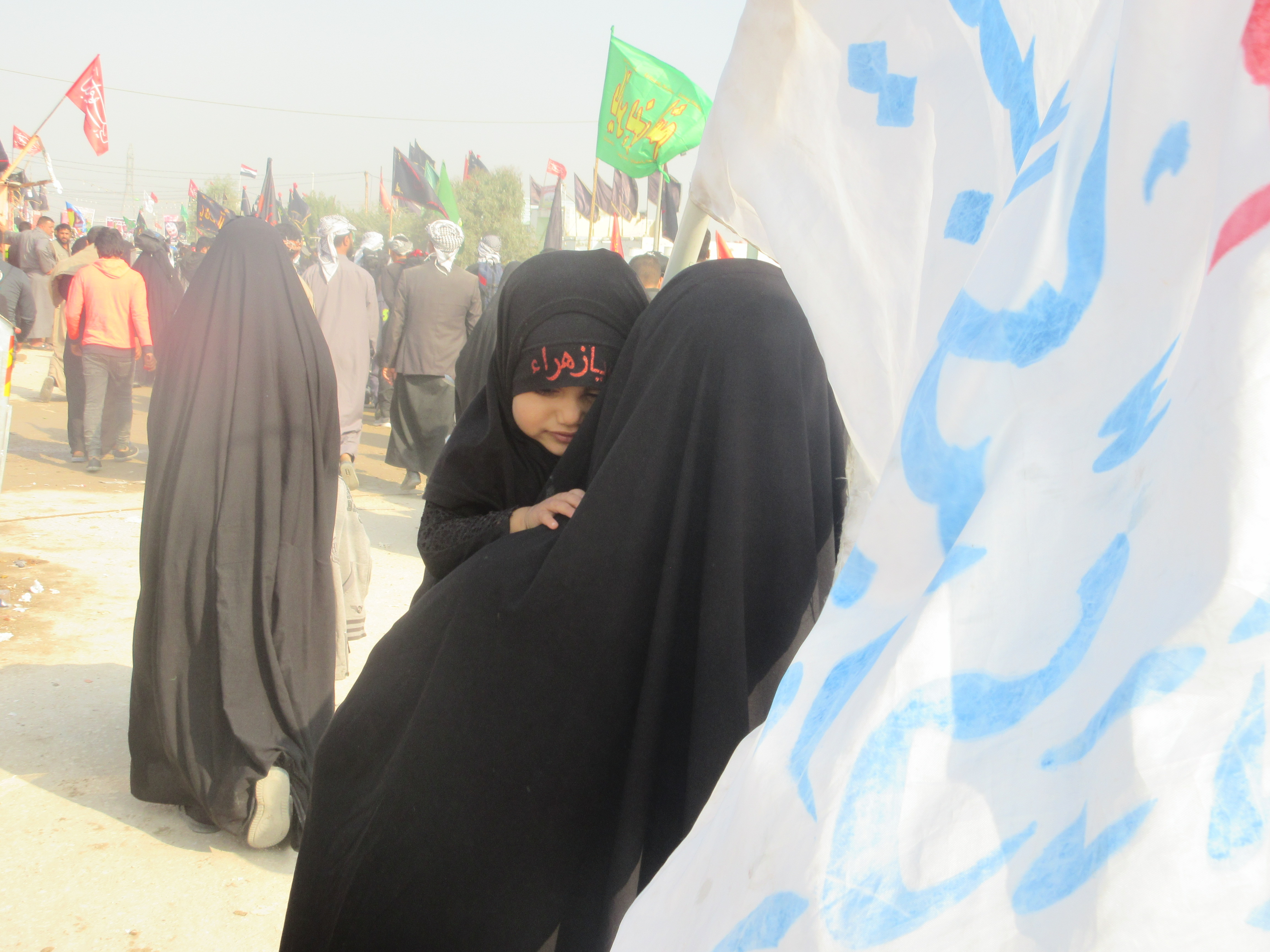 A little girl participating 2015 Arbaeen pilgrimage with her mother.